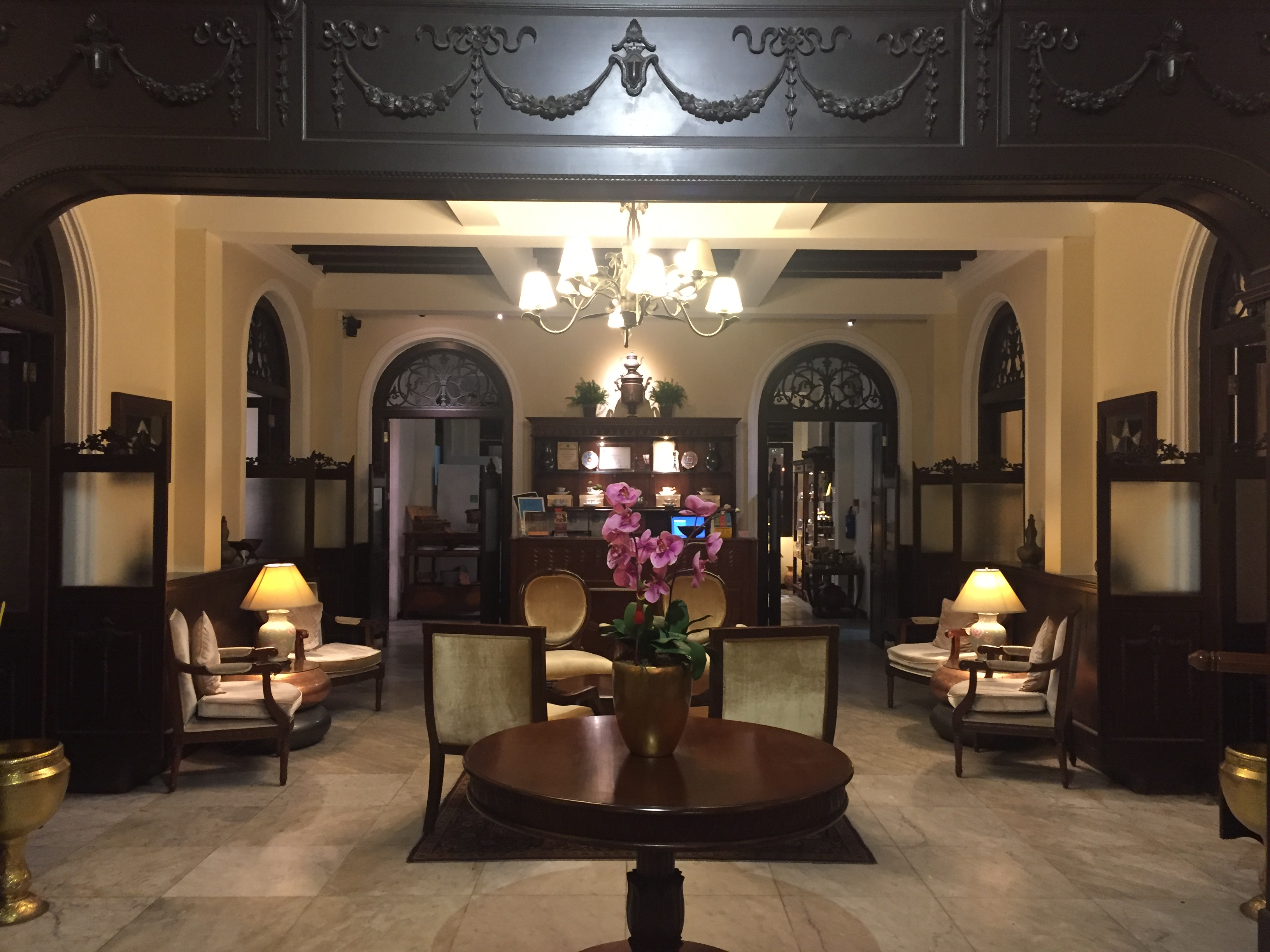 Mamanda restaurant in Gedung Kuning, Singapore.